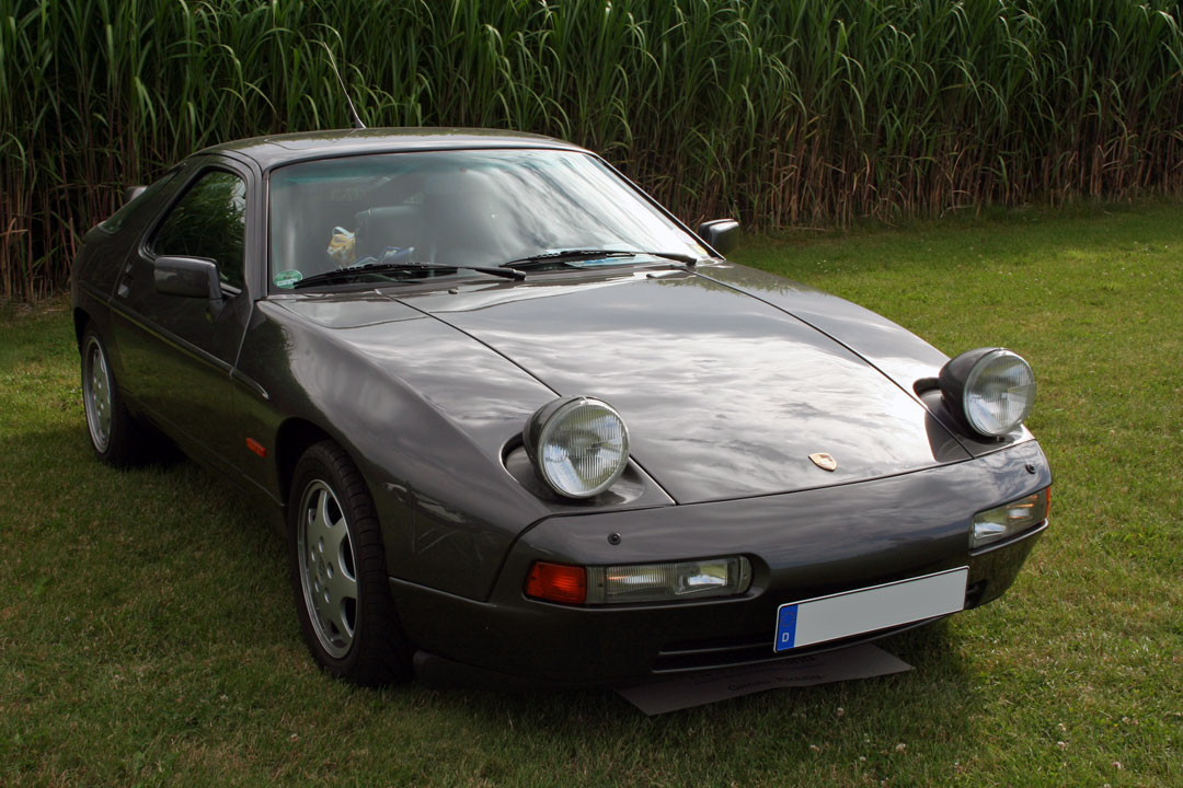 Porsche 928 S4 with headlight in up position at Classic Days Schloss Dyck 2012. View: front right